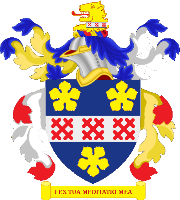 The armorial achievement of George Harold Newsom, Esquire